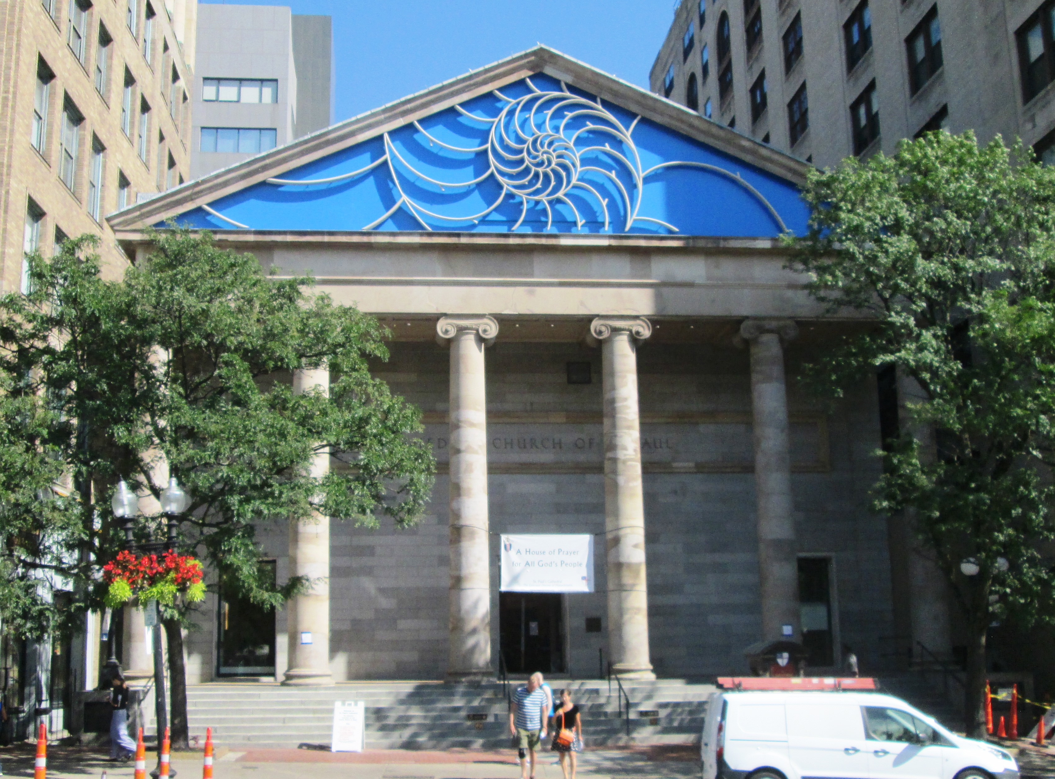 The Episcopal Cathedral Church of St. Paul, Boston, located at 138 Tremont Street in Boston, Massachusetts, across from the Boston Common and the Park Street MBTA station, was built in 1819, and was designed by Alexander Parris and Solomon Willard in the Greek Revival style. It was designated a National Historic Landmark in 1970.